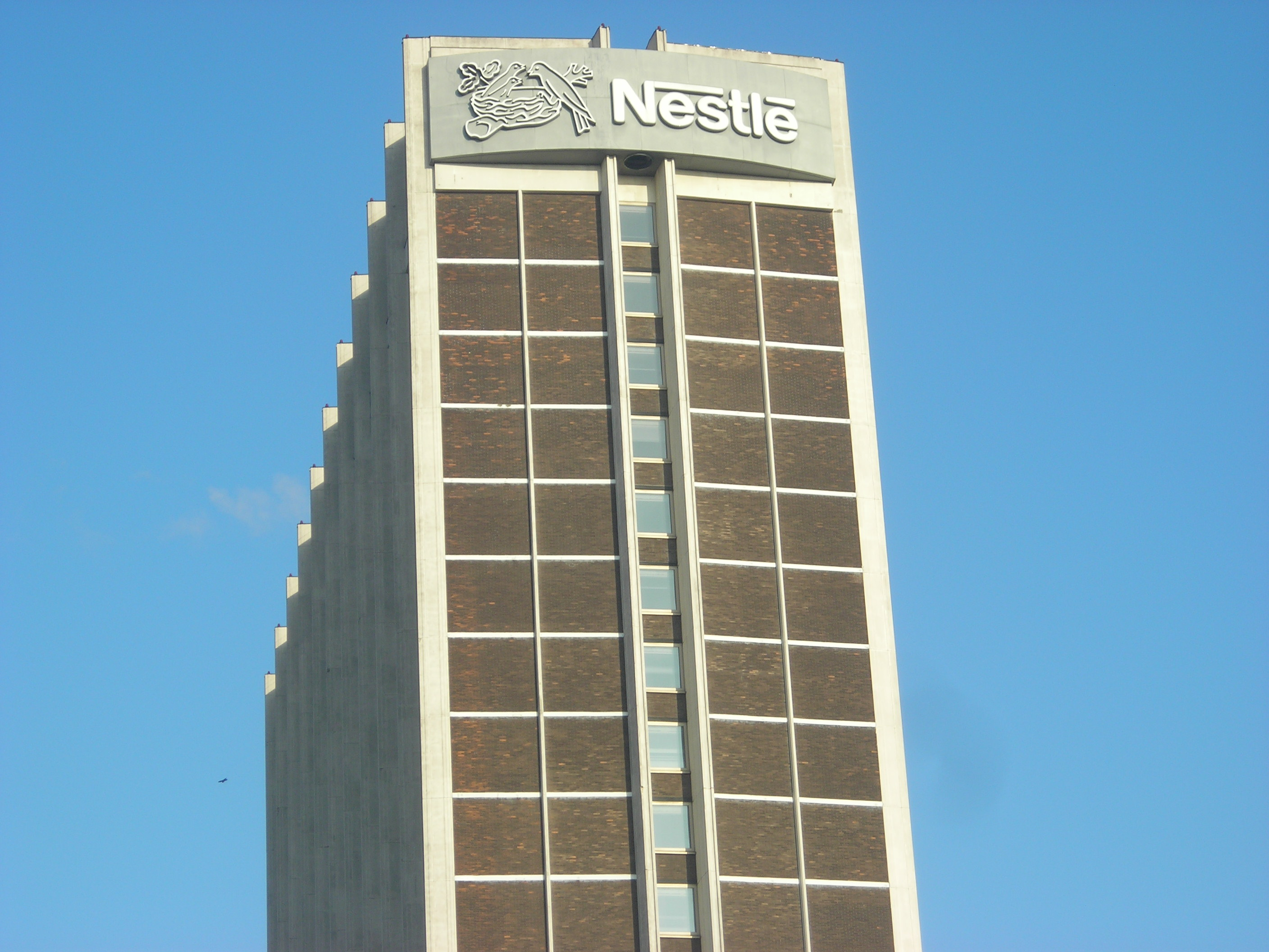 Photograph of the Nestle Tower in Croydon